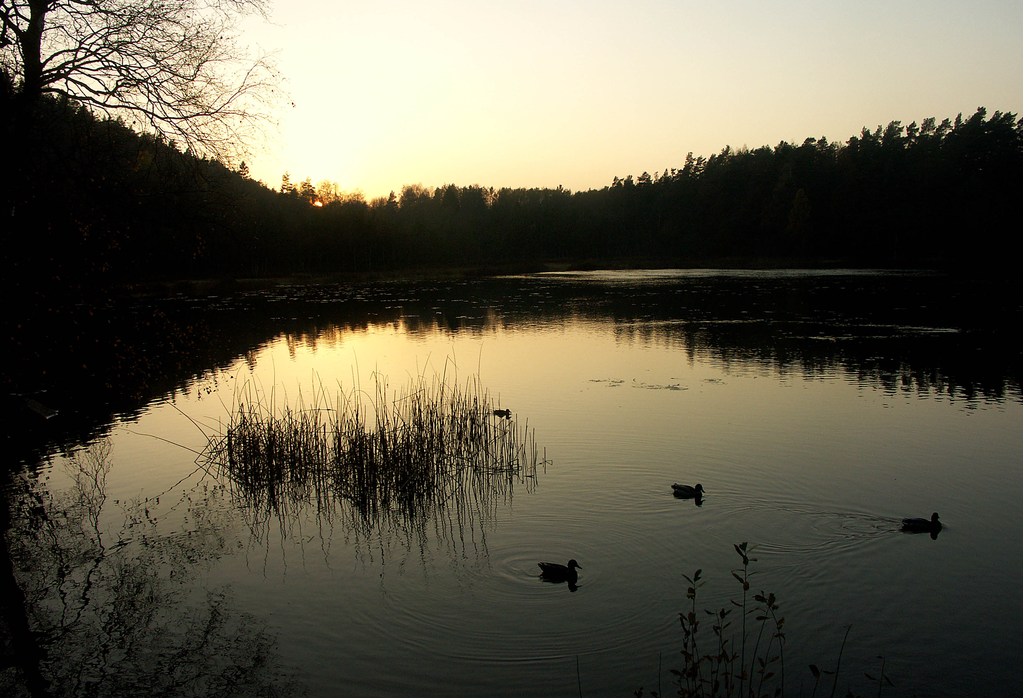 Björndammen (Bear Pond) in Partille, Sweden.